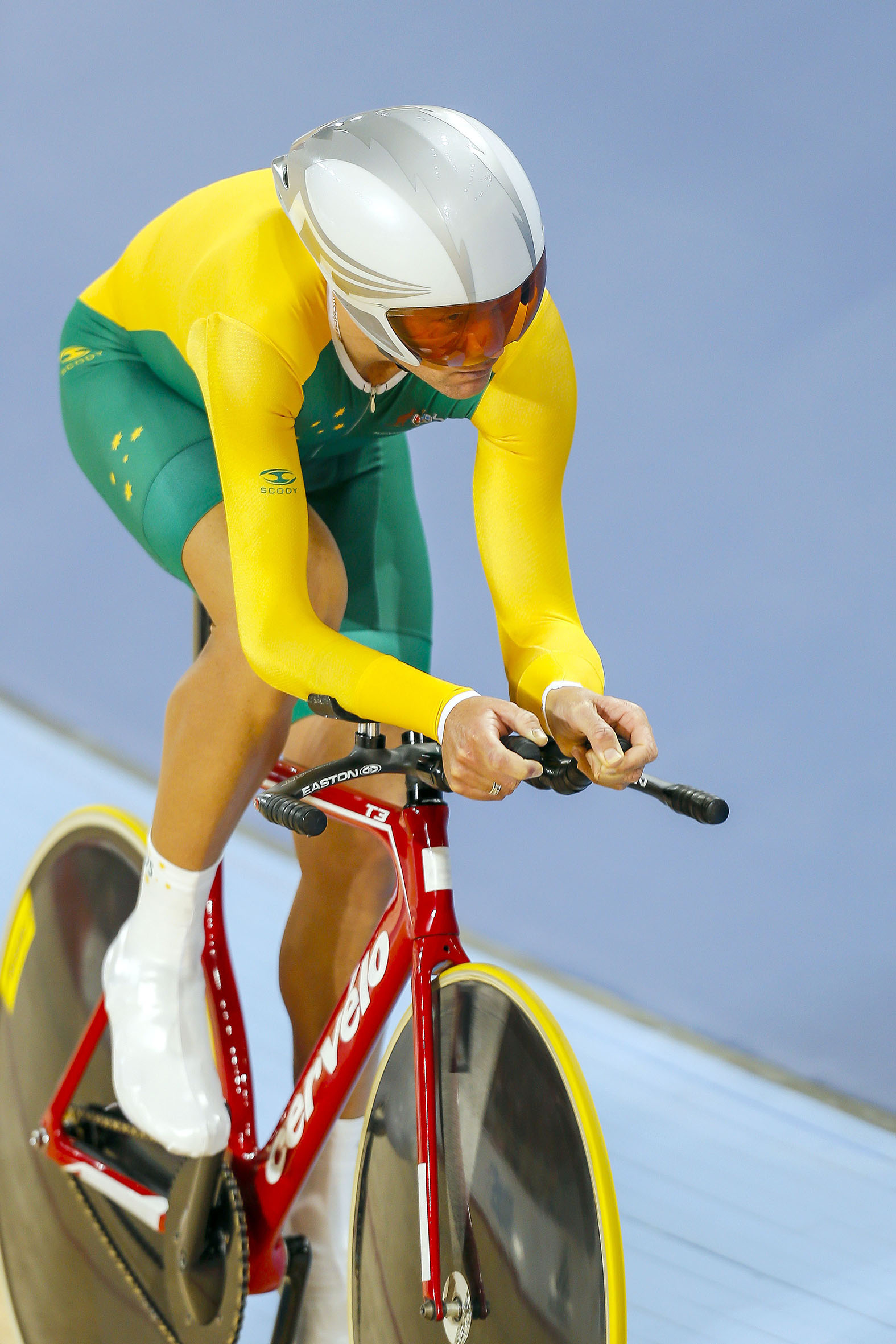 Photograph of Australian Paralympic team member Michael Gallagher at the 2012 Summer Paralympic Games in London